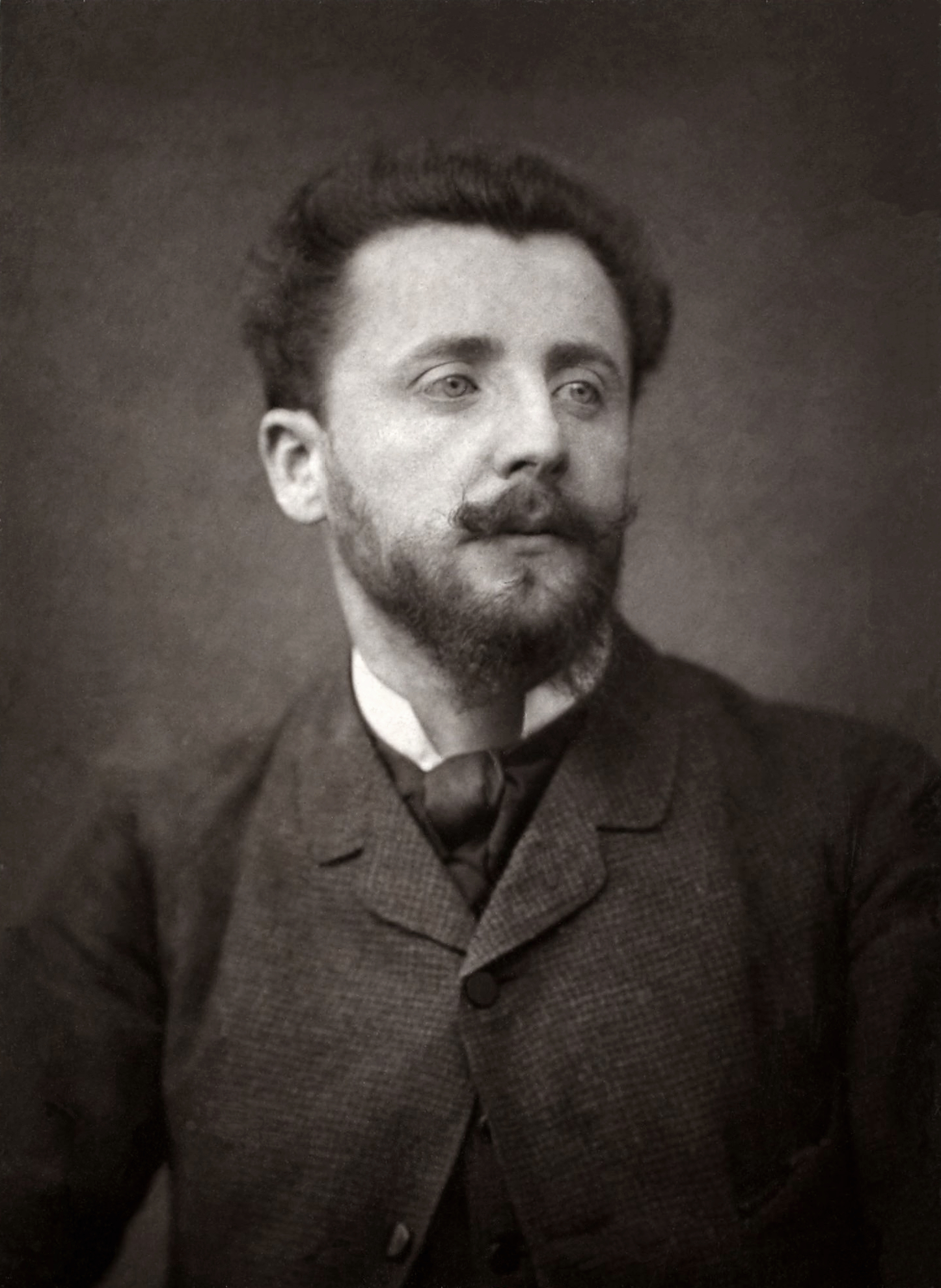 Henri Cain (1857 - 1937), french librettist, playwright and painter.